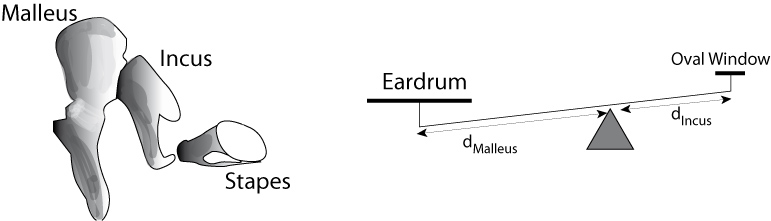 Mechanics of the amplification-effect of the middle ear.